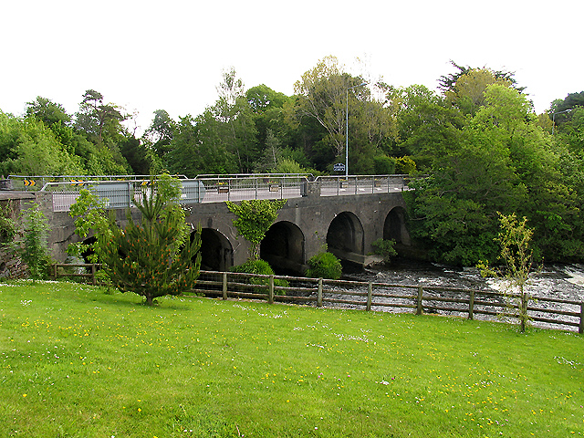 Bridge at Ballylickey. The bridge carries N71 traffic from Bantry to Killarney.